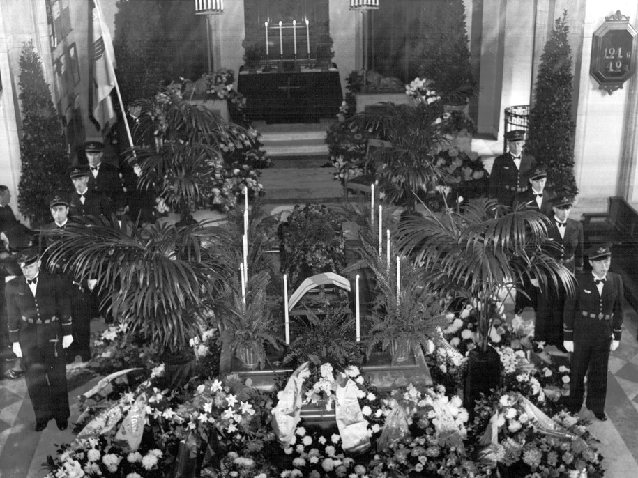 Överste Gustav Ströms jordfästning i Nora krematorium